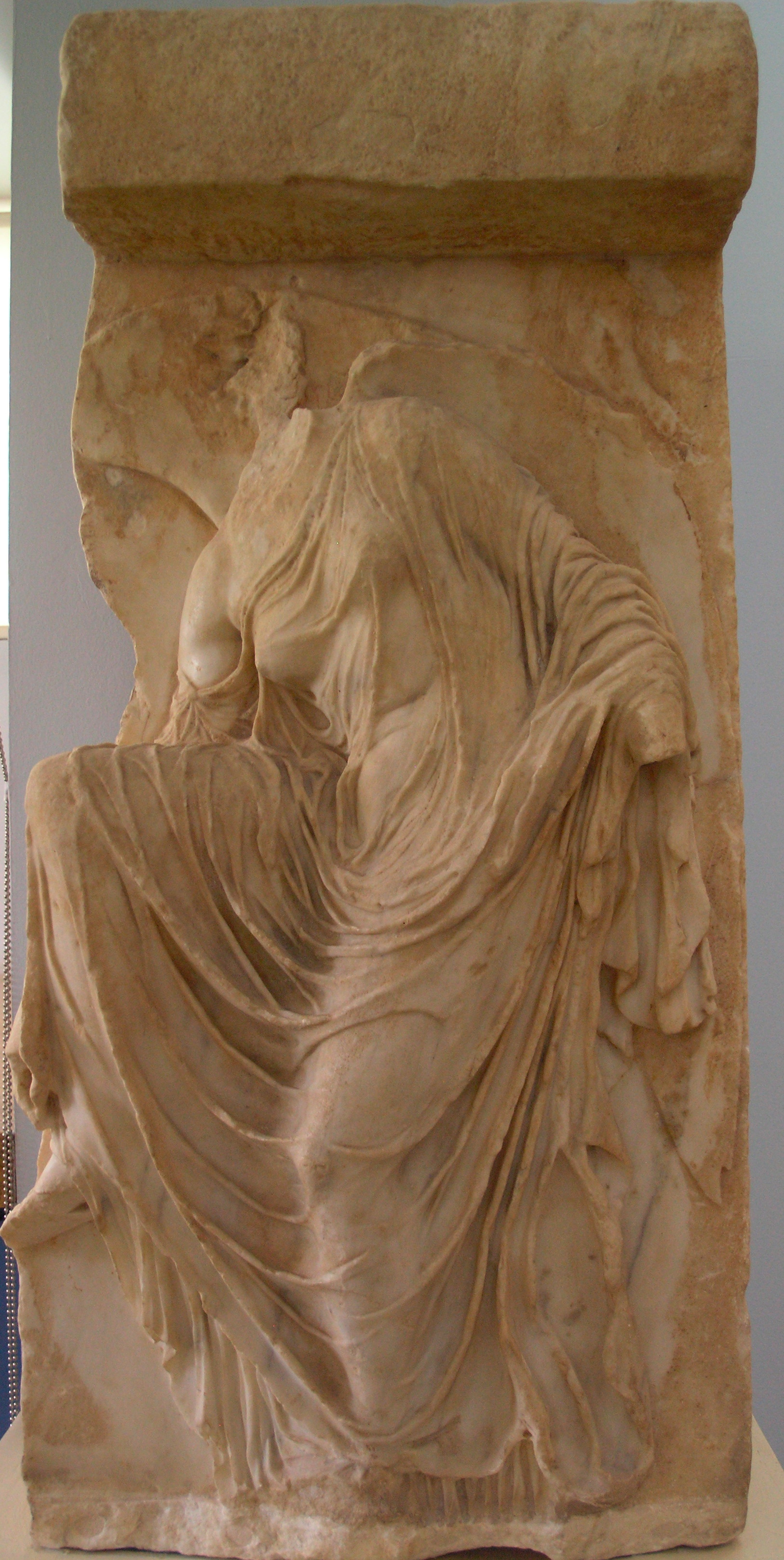 Nike with the sandal. Relief from the temple of Athena Nike. ca 420-410 BC